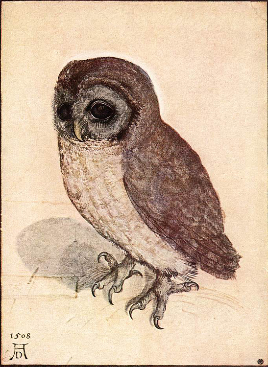 The Little Owl